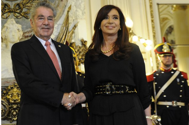 Argentine President, Cristina Fernández de Kirchner, and Austrian President, Heinz Fischer, in the Casa Rosada.